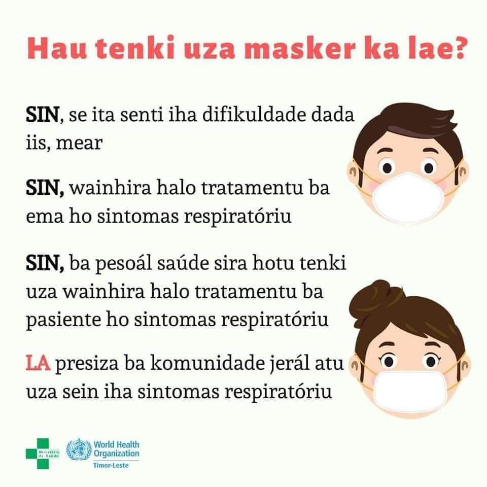 Informations about Corona in Tetum